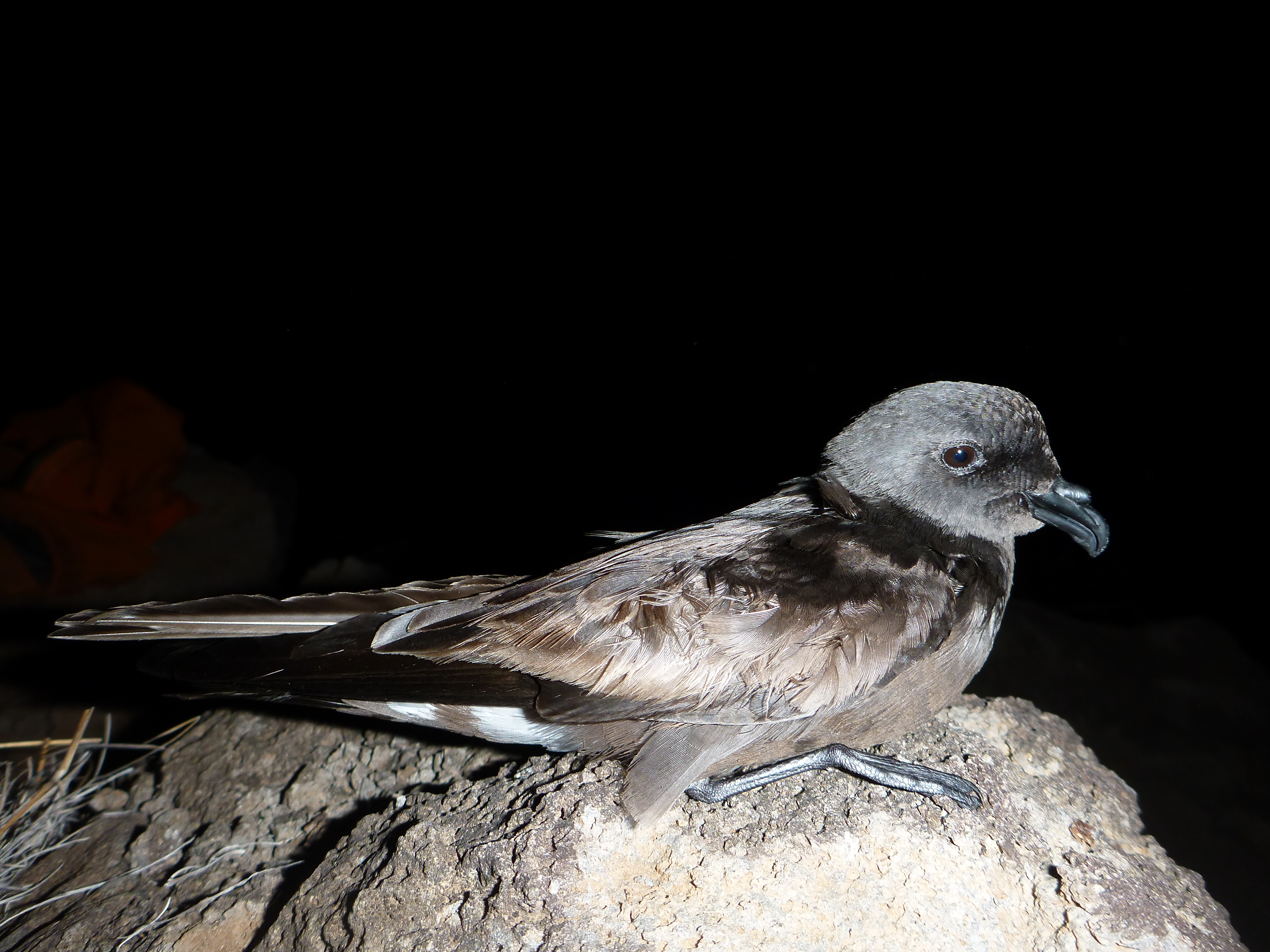 Facing threats from habitat loss and degradation, the U.S. Fish and Wildlife Service has proposed to add 49 species from Hawaii to the Endangered Species Act. . Photo by Andre Raine KESRP